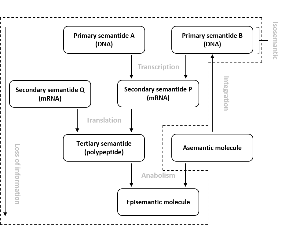 Visual representation of the relationship between the terms primary semantide, secondary semantide, tertiary semantide, episemantic molecule, asementic molecule and isosemantic.